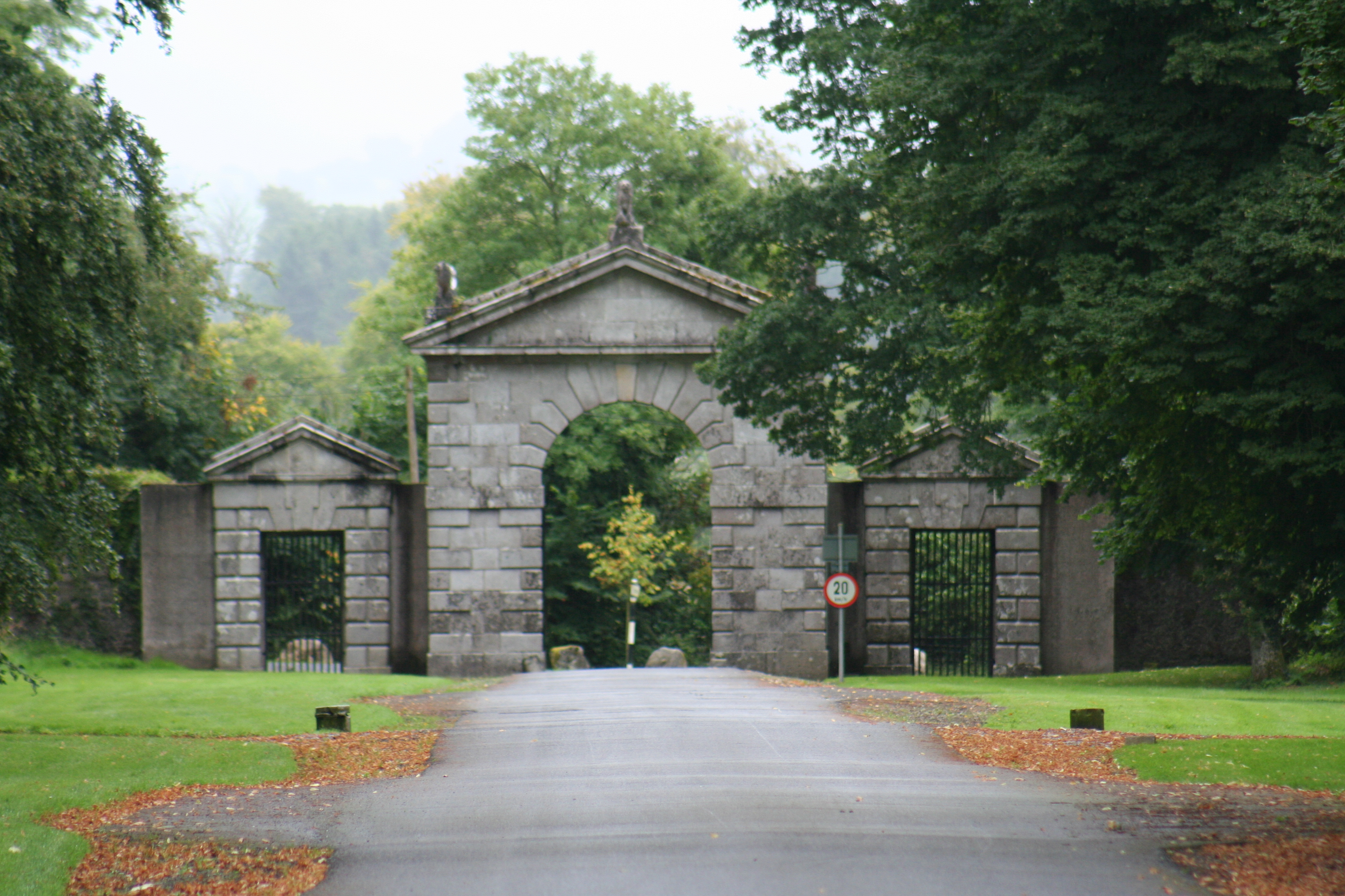 Russborough house en el condado de Wicklow